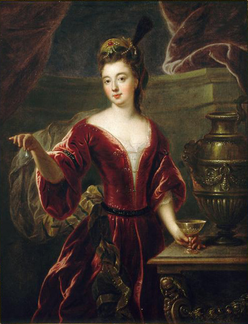 Portrait of a Noblewoman identified as either Louise Bénédicte de Bourbon, Duchess of Maine (1676-1753) or Louise Françoise de Bourbon, Mademoiselle de Nantes (1673-1743) depicted as Cleopatra